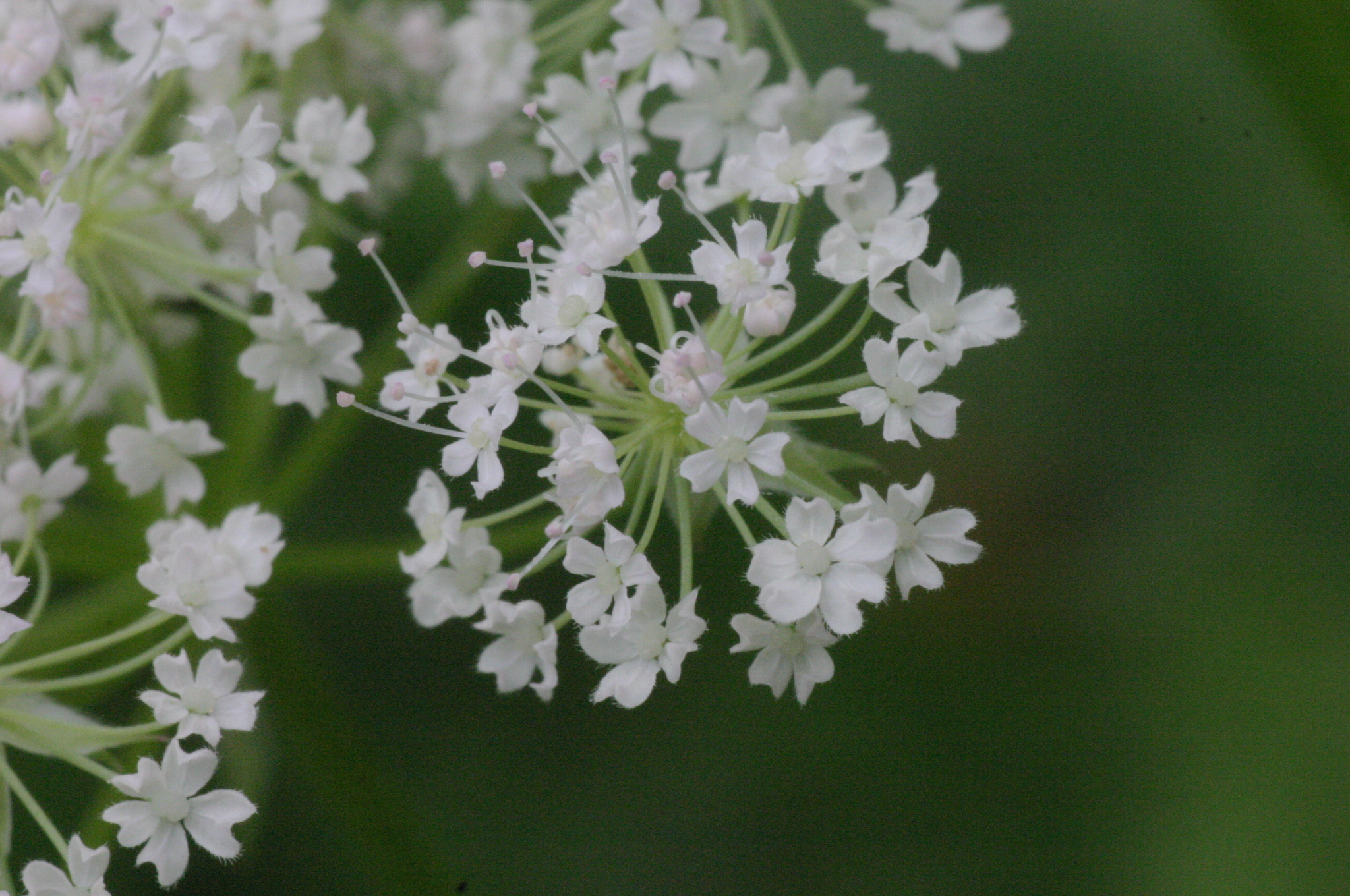 Chaerophyllum hirsutum